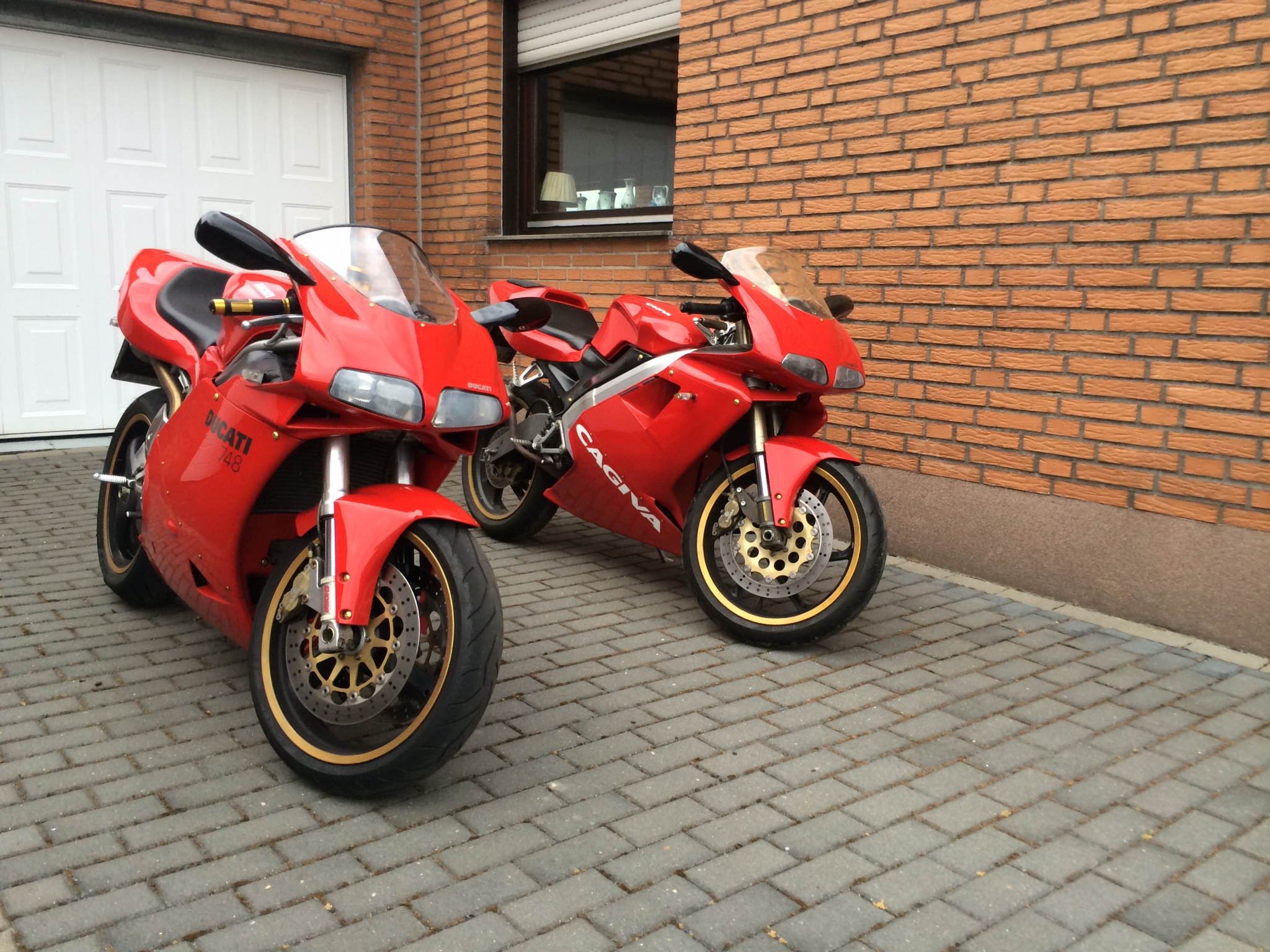 Cagiva Mito Evolution versus Ducati 748